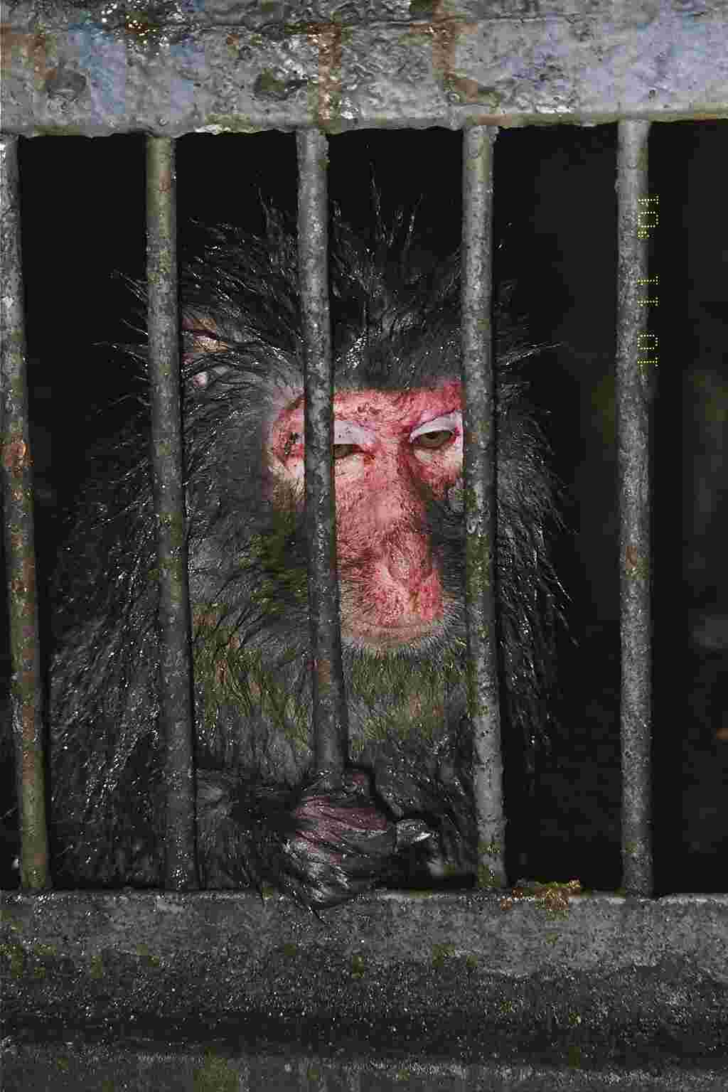 Description: A sick Macaque photographed in 2001 in the Zigong People's Park Zoo, Sichuan, by the Asian Animal Protection Network.